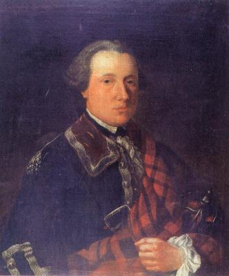 Donald Cameron of Lochiel (c1700-1748)